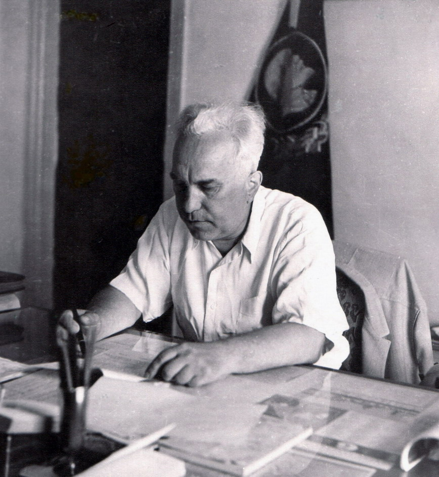 Aleksander Adolfovich Burba in the Director's office of the Mednogorsk Copper and Sulfur Works (1970).